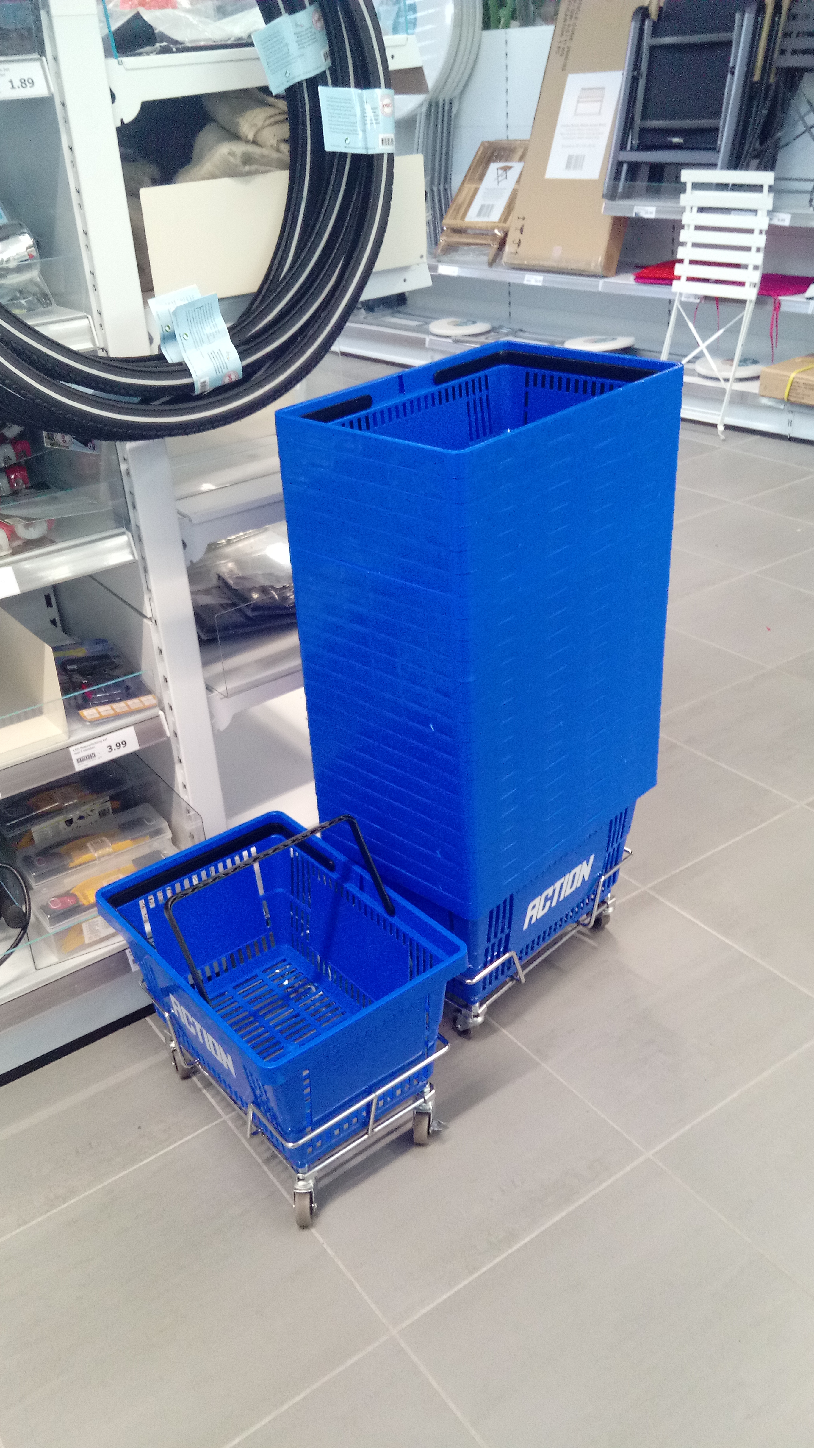 Blue shopping baskets inside of a small local Action store in the Groninger village of Oude Pekela.